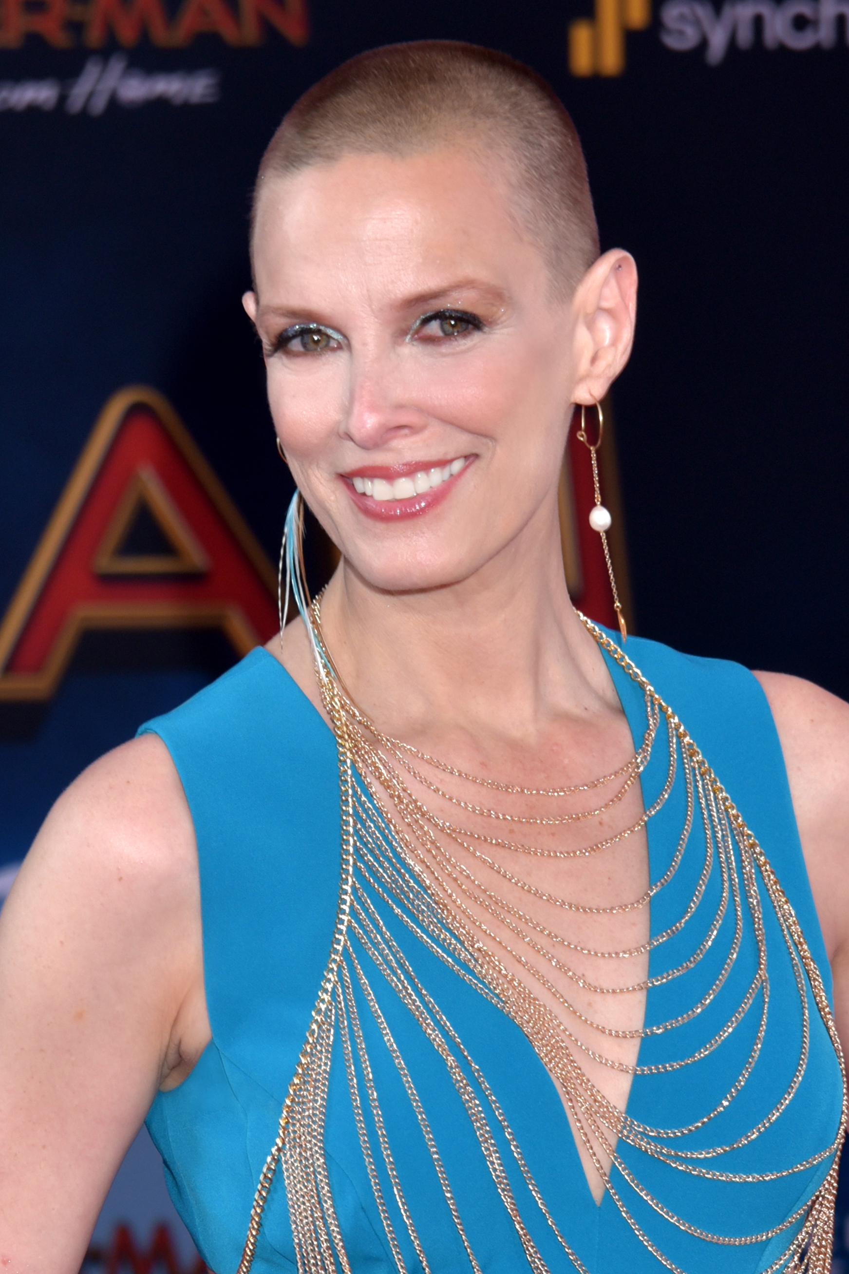 Sharon Blynn at the Premiere of "Spider-Man: Far From Home" in Hollywood California on June 26, 2019 - Photo by Glenn Francis of